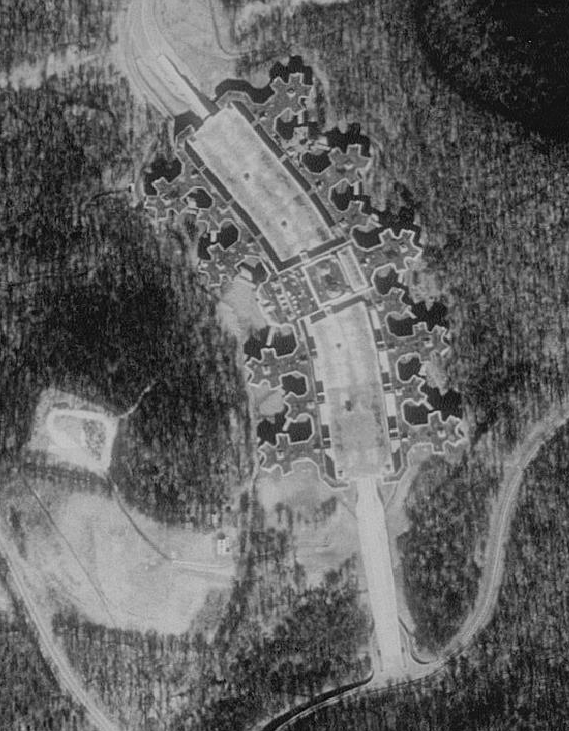 Aerial image of the Union Carbide headquarters in Connecticut, USA